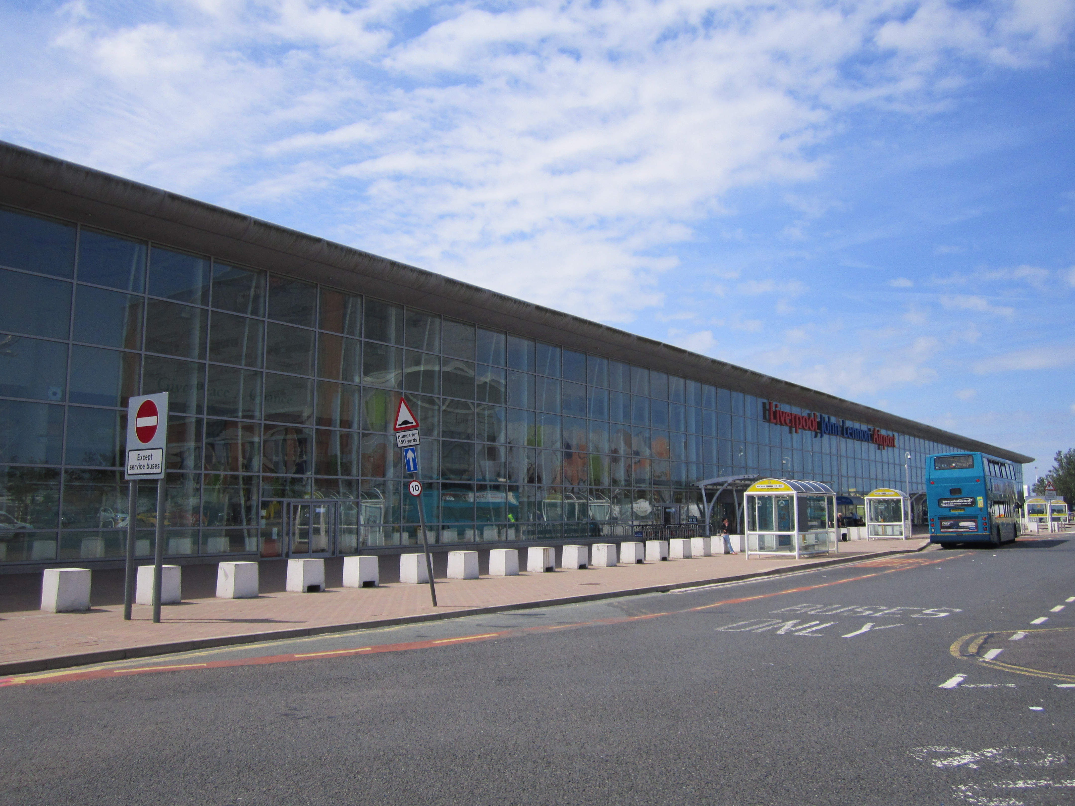 Liverpool John Lennon Airport.